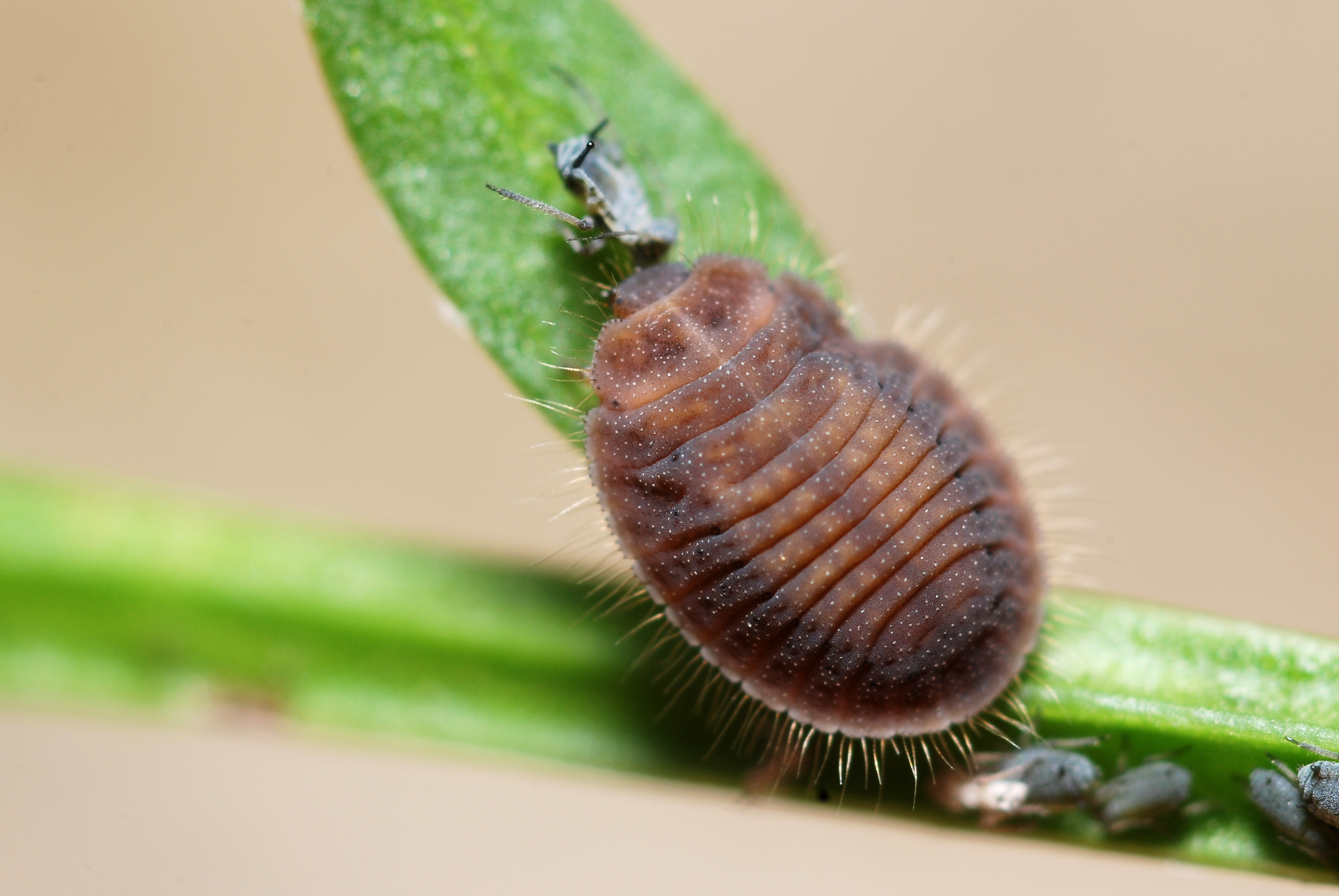 Larva of the ladybird Platynaspis luteorubra